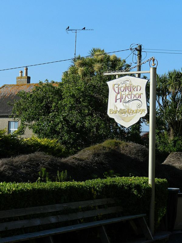 Sign outside are of the world famous pub